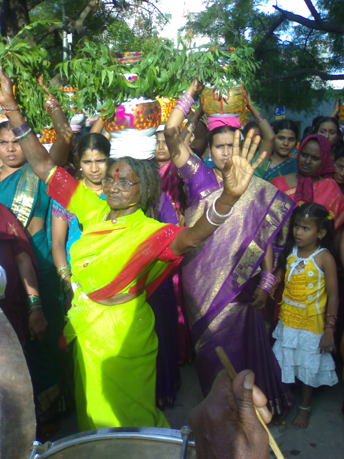 A woman dancing under trance during Bonalu.